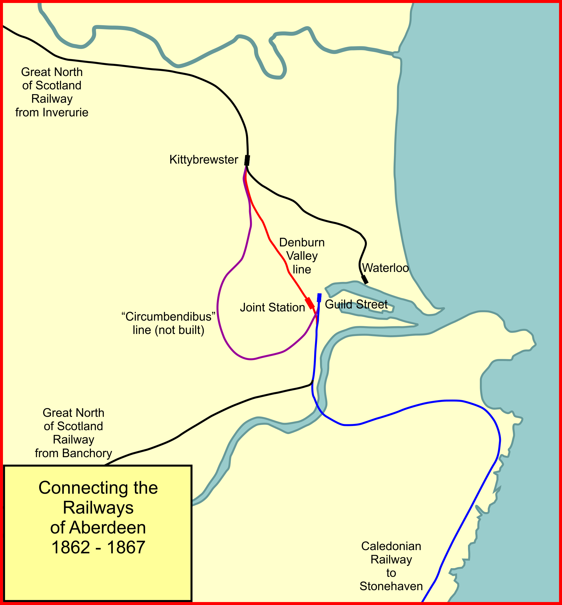 Railway proposals to connect across Aberdeen, 1862 to 1867